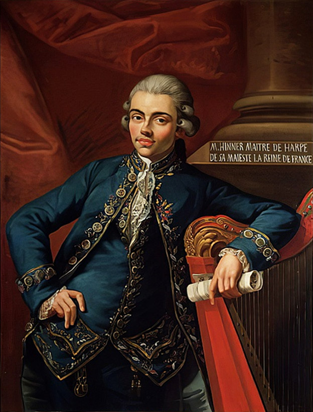 Portrait of german composer and harpist Philipp Joseph Hinner (1754-1805)